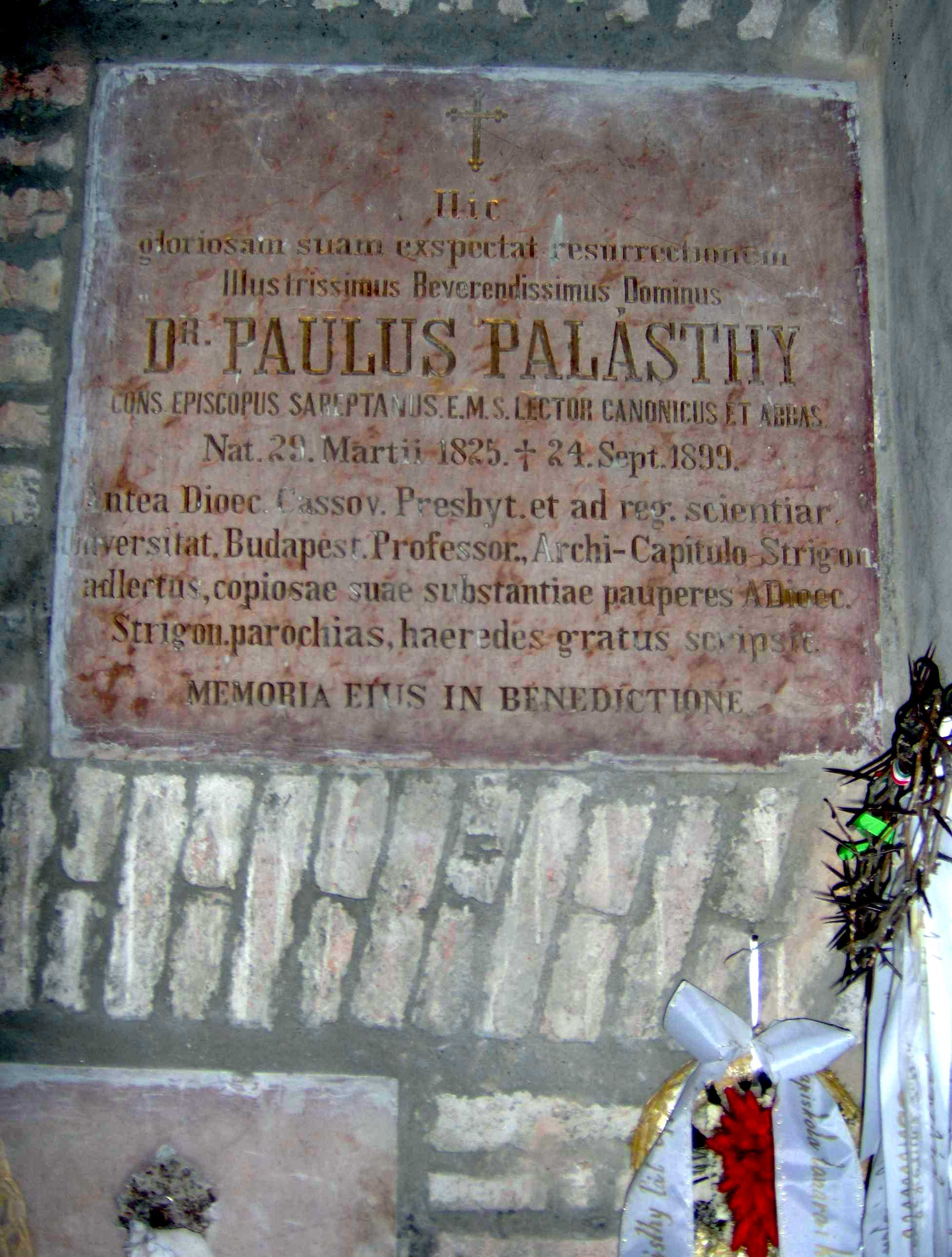 Tomb of Pál Palásthy in Esztergom Basilica. Inscription: + // Hic // gloriosam suam exspectat resurrectionem // Illustrissimus Reverendissimus Dominus // DR. PAULUS PALÁSTHY // CONS. EPISCOPUS SAREPTANUS. E. M. S. LECTOR CANONICUS ET ABBAS // Nat. 29. Martii 1825. + 24. Sept. 1899. // Antea. Dioec. Cassov. Presbyt. et ad reg. scientiar. // Universitat. Budapest. Professor., Archi-Capitulo Strigon. // adlectus, copiosae suae substantiae pauperes ADioec. // Strigon. parochias, haeredes gratus scripsit. // MEMORIA EIUS ET BENEDICTIONE